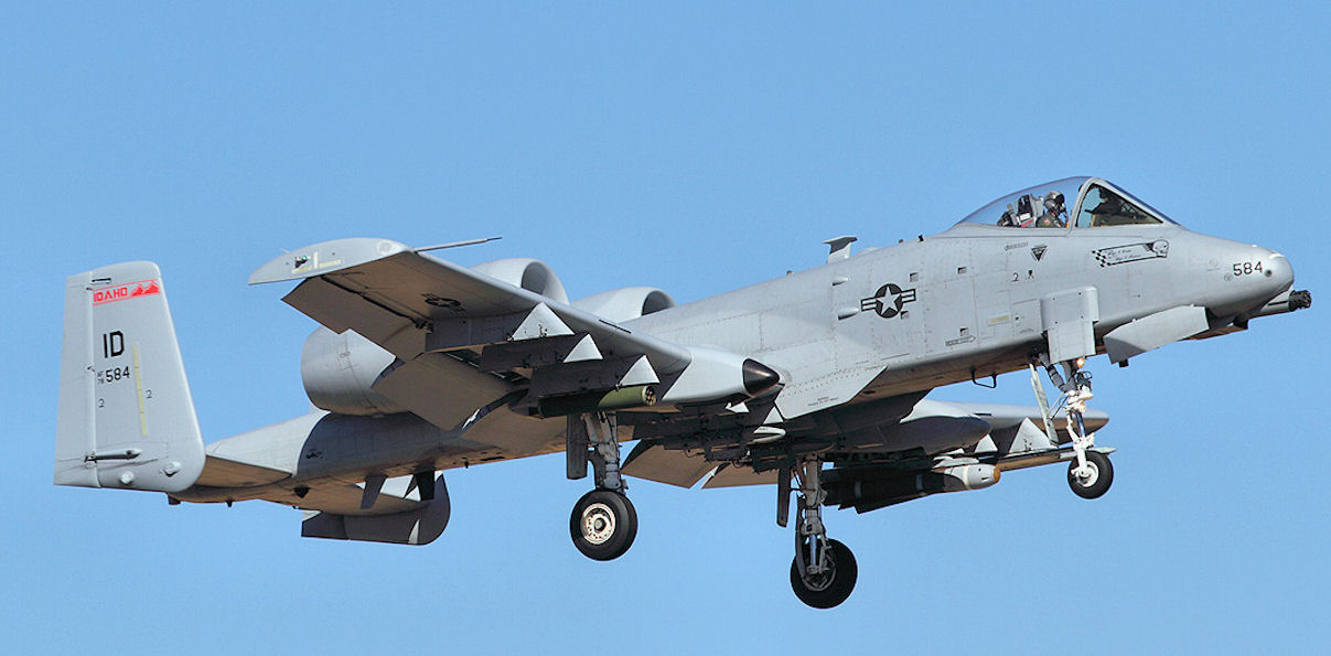 190th Fighter Squadron A-10 A-10A Thunderbolt II 78-0584